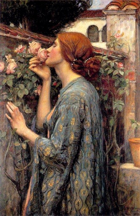 The painting shows the mortal Psyche admiring the Eros’s magical garden, the Greek god of life.